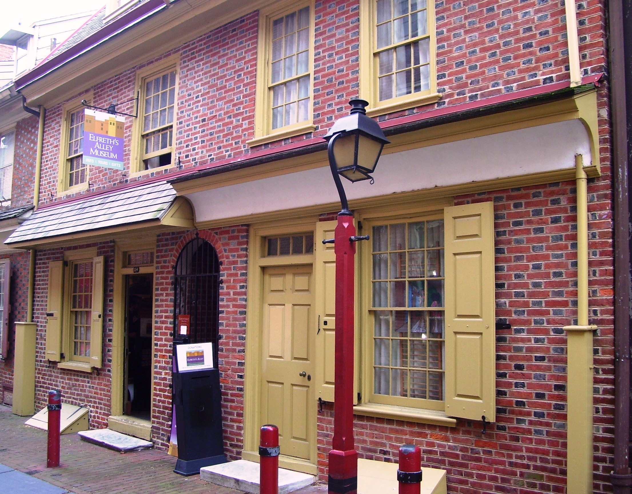 Elfreth's Alley is America's oldest residential street. Founded in 1702, more than 3000 people have lived in the alley, which runs between N. 2nd Street and N. Front Street, in the Old City neigborhood of Philadelphia, Pennsylvania. As of 2012, there are 32 houses on the street, which were built between 1728 and 1836. The Elfreth Alley Museum is located at #124 and 126. (Source: Marker on Elfreth's Alley) This image shows the museum.